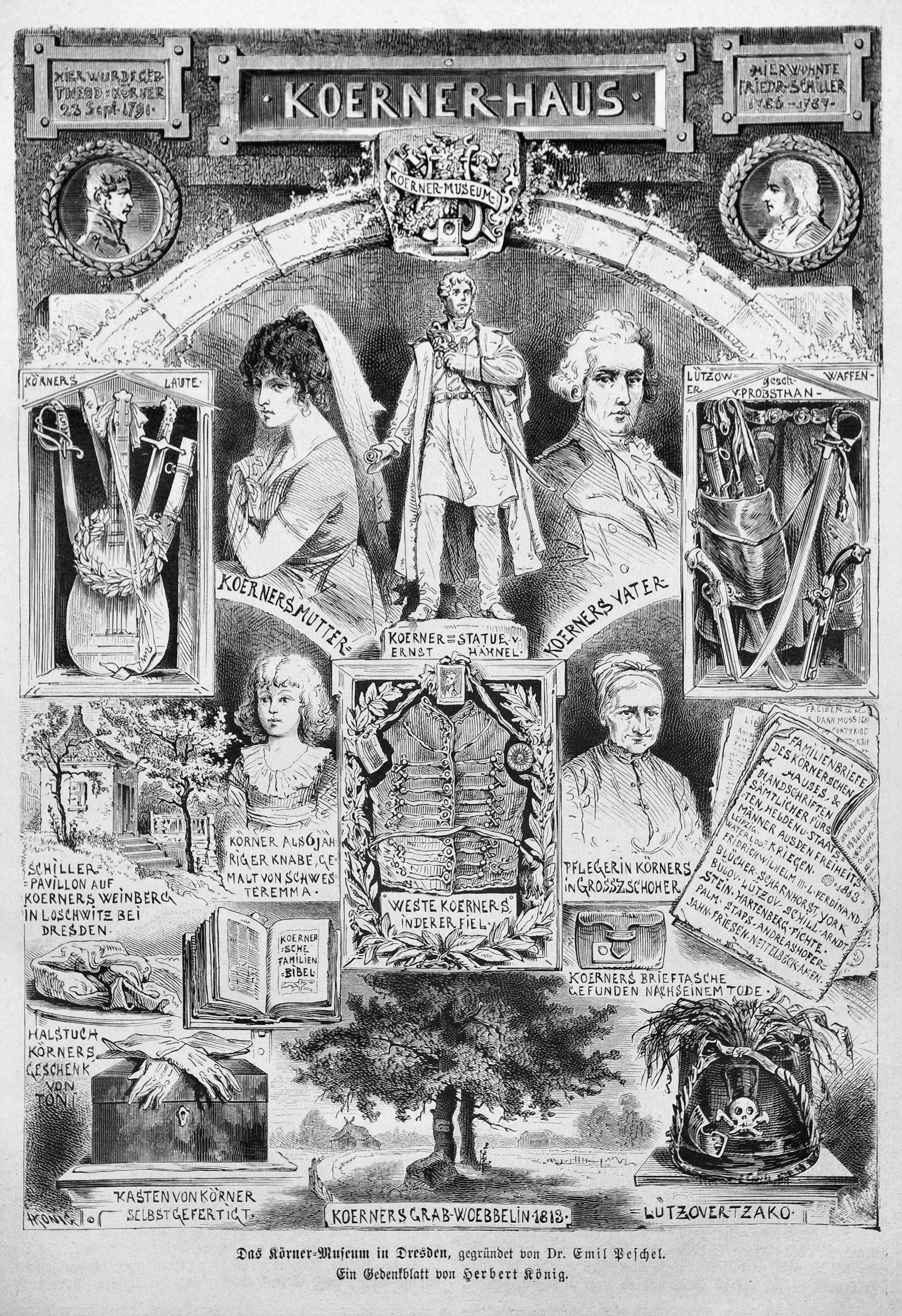 caption: "Das Körner-Museum in Dresden, gegründet von Dr. Emil Peschel.Ein Gedenkblatt von Herbert König."